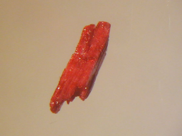 Abelsonite Locality: Green River Formation, Uintah County, Utah, USA Reddish abelsonite crystal. Crystal size 1.8 mm. Collection and photo Thomas Witzke.